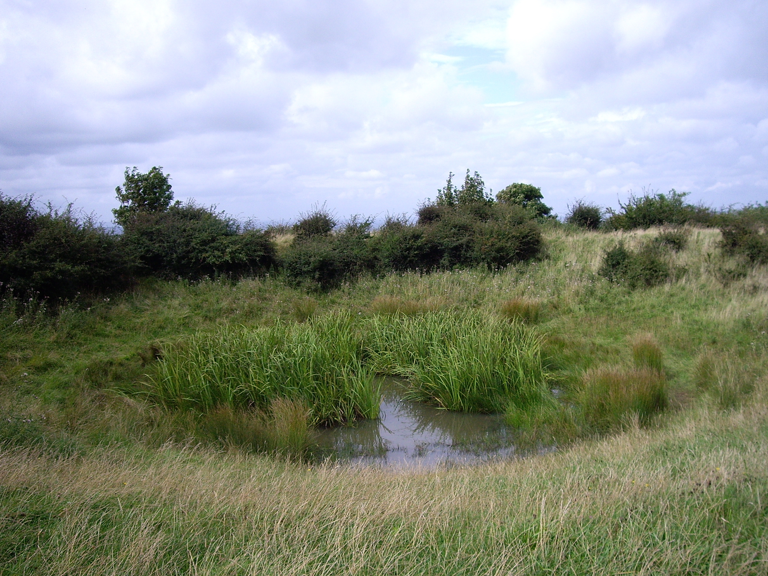 Chanctonbury Dew Pond. These ponds are typical for coastal Sussex in the area around Worthing where they were once said to be the home of the Knucker, a huge dragon.